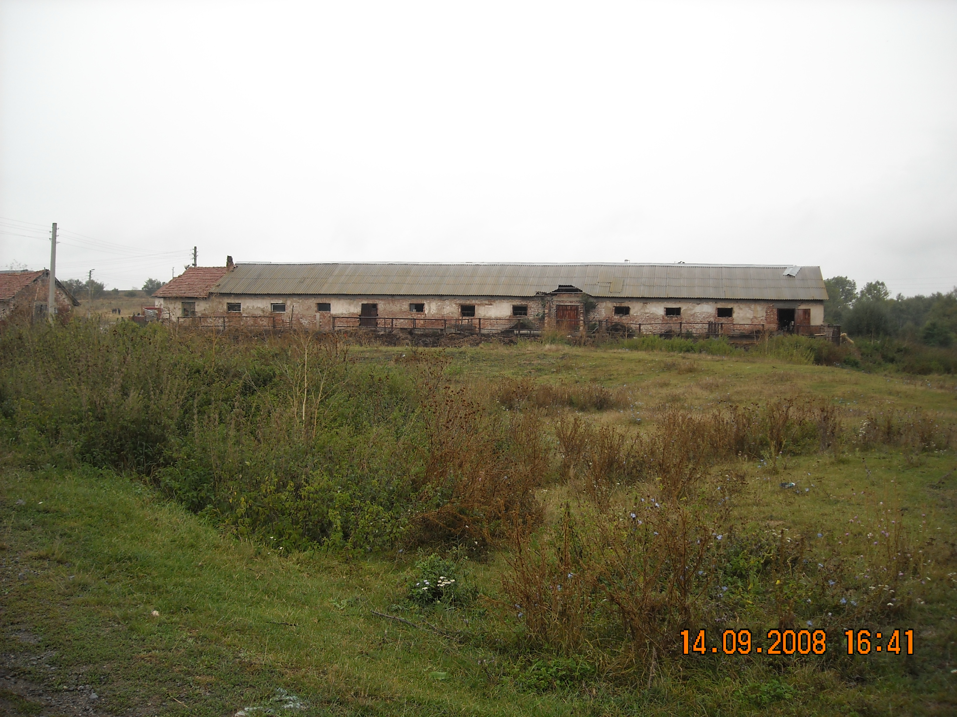 The agricultural cooperation of village Gigintsi